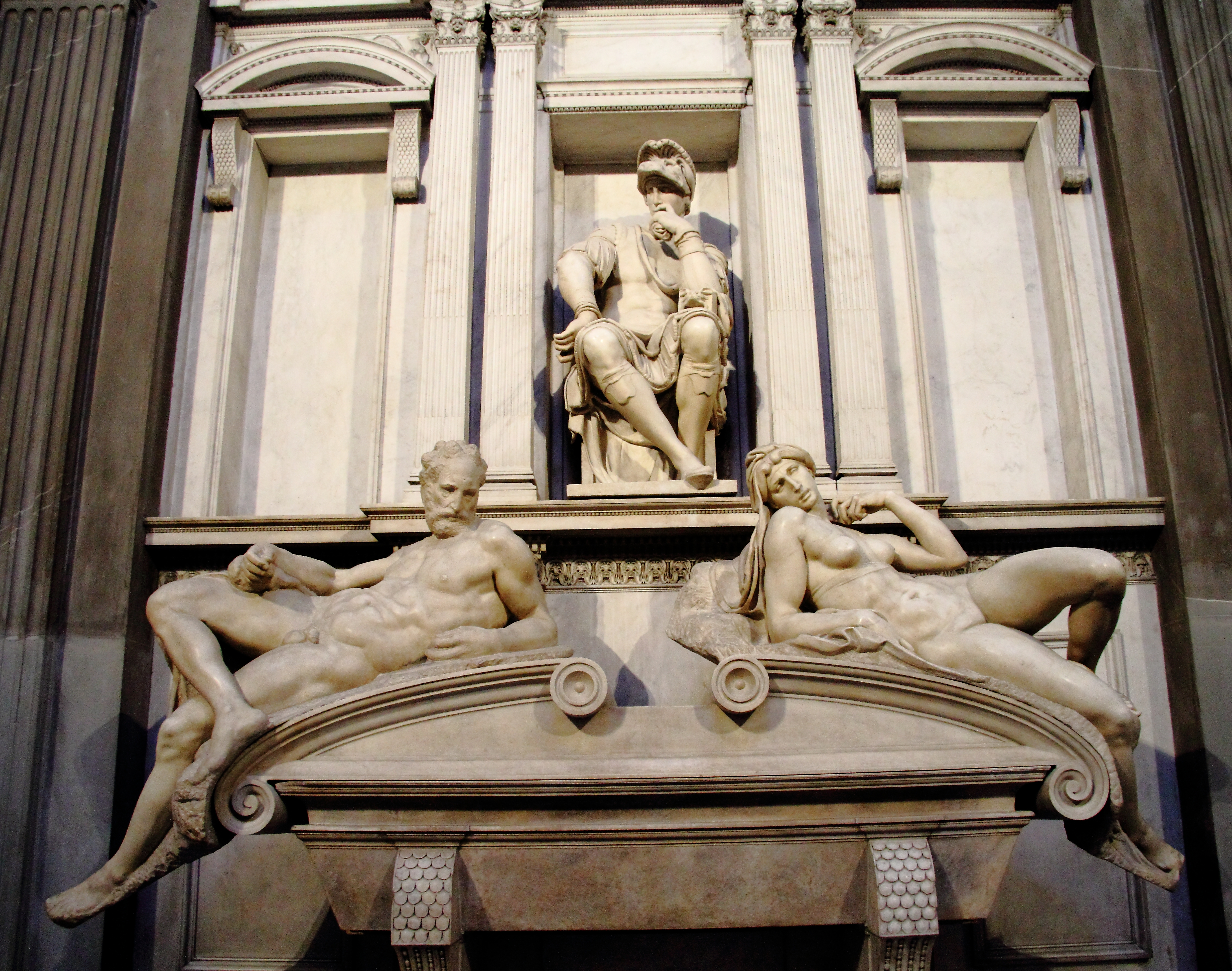 Florence: San Lorenzo, New Sacristy, tomb monument of Lorenzo de' Medici, Duke of Urbino